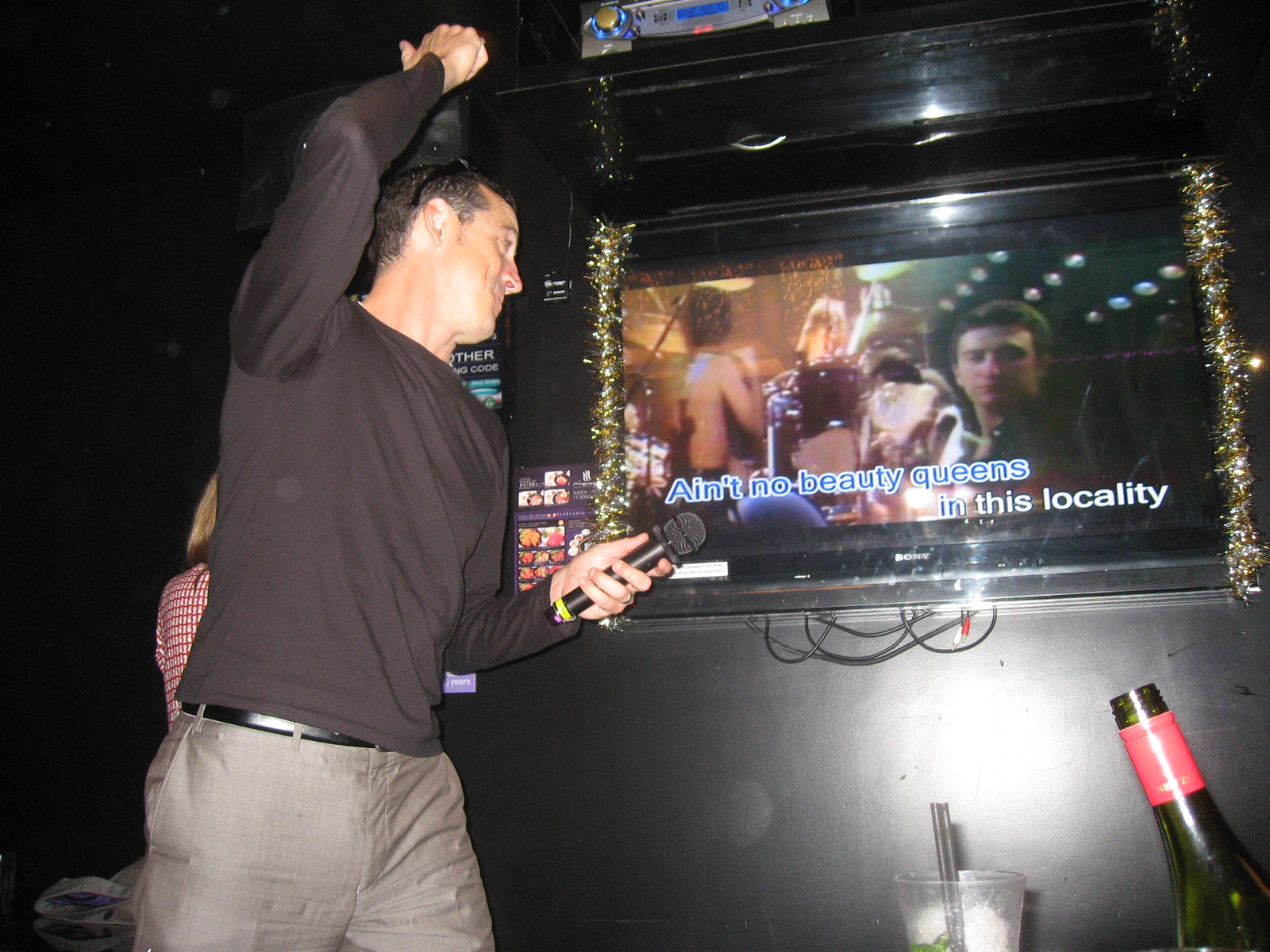 Rob Leslie-Carter goes all Karaoke